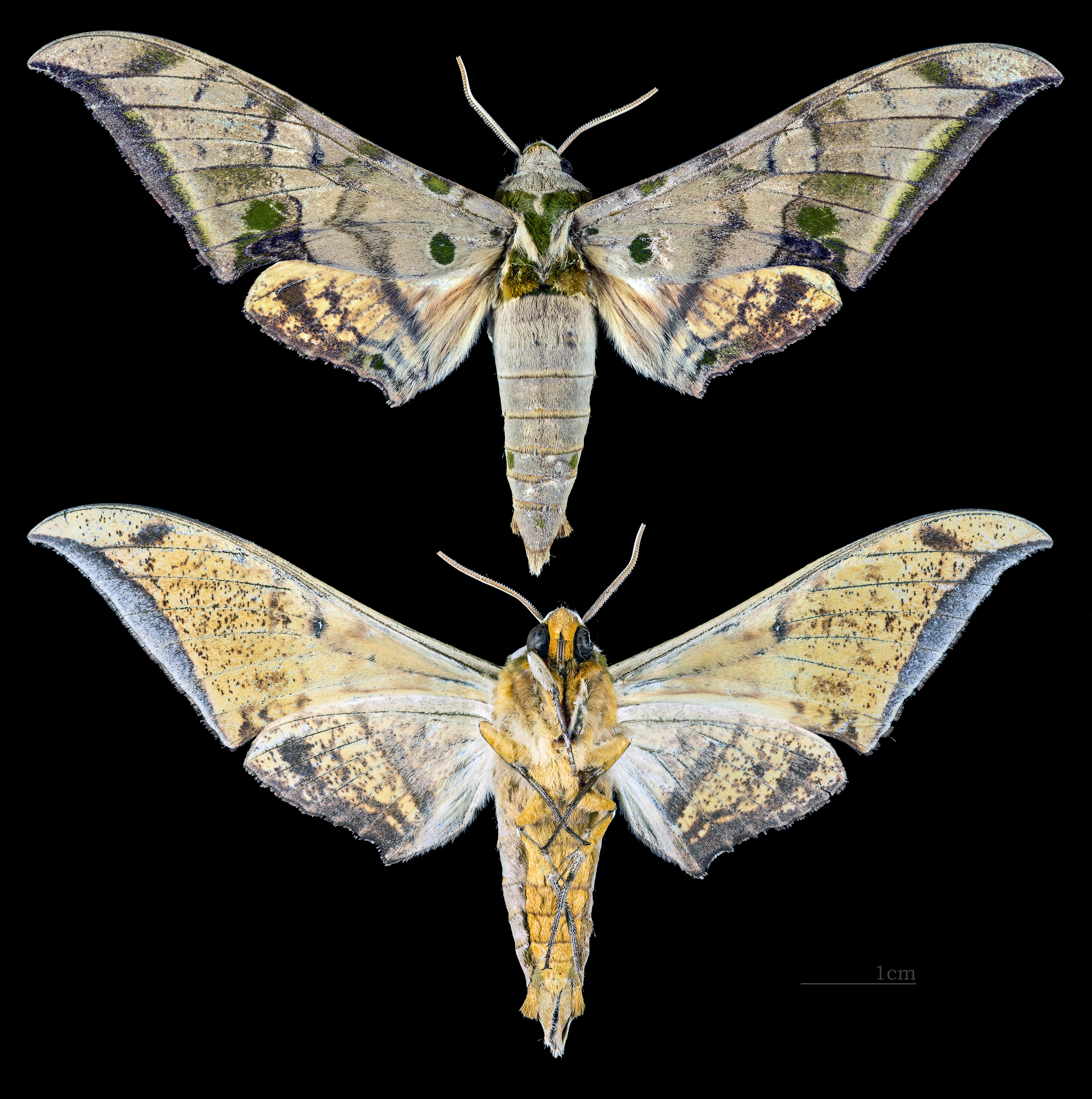 Ambulyx schauffelbergeri - Two views of same specimen Collection of the Mathematician Laurent Schwartz